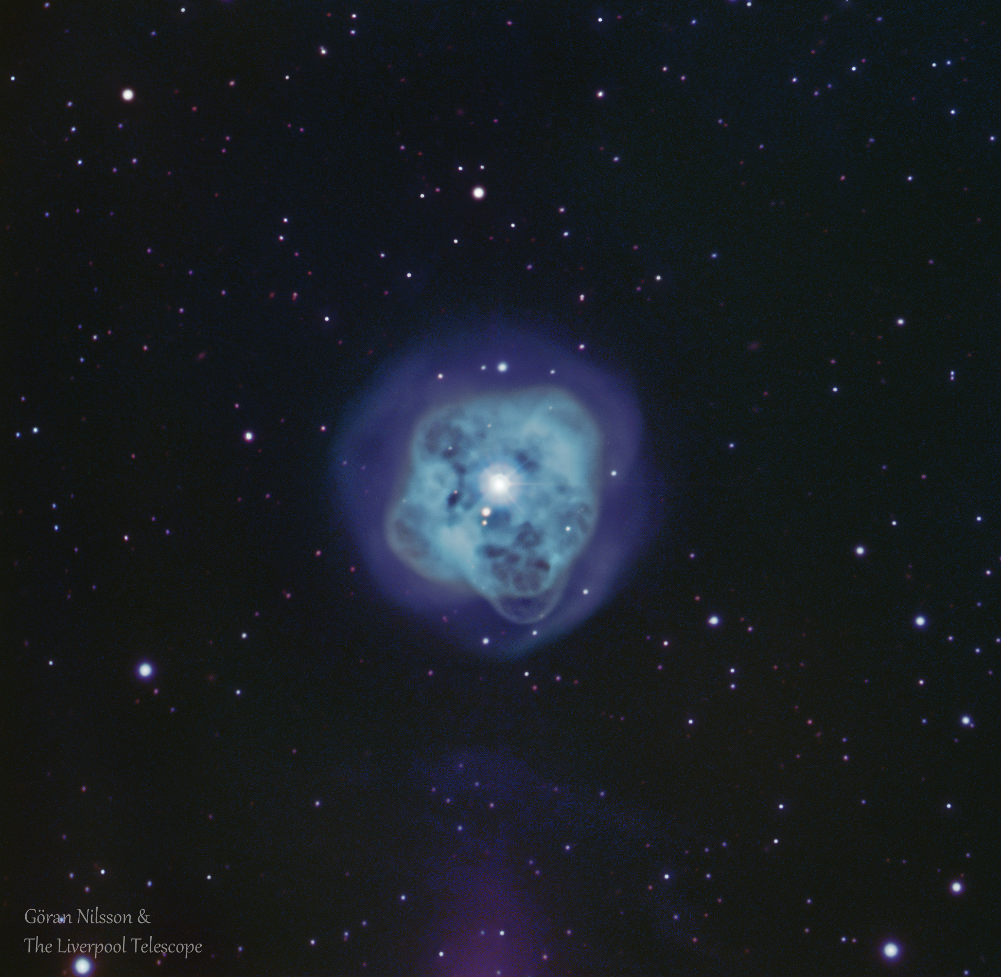 HaRGB image of the planetary nebula NGC 1514. Data from the Liverpool Telescope, a 2 m RC telescope on La Palma, processed by Göran Nilsson. 80 x 90s exposures totaling 2 hours